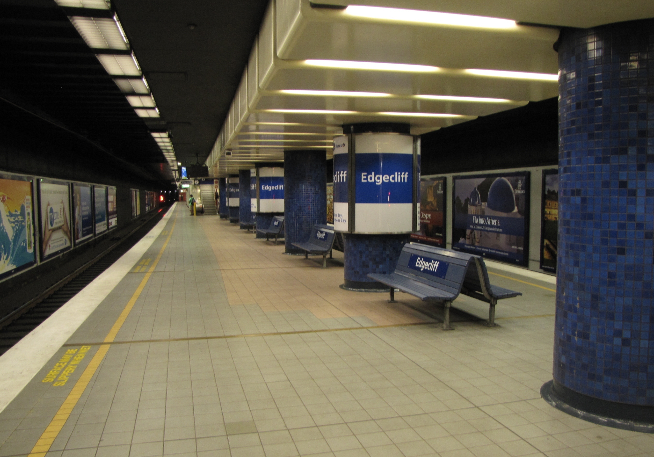 Edgecliff railway station platforms. Taken from the city end.